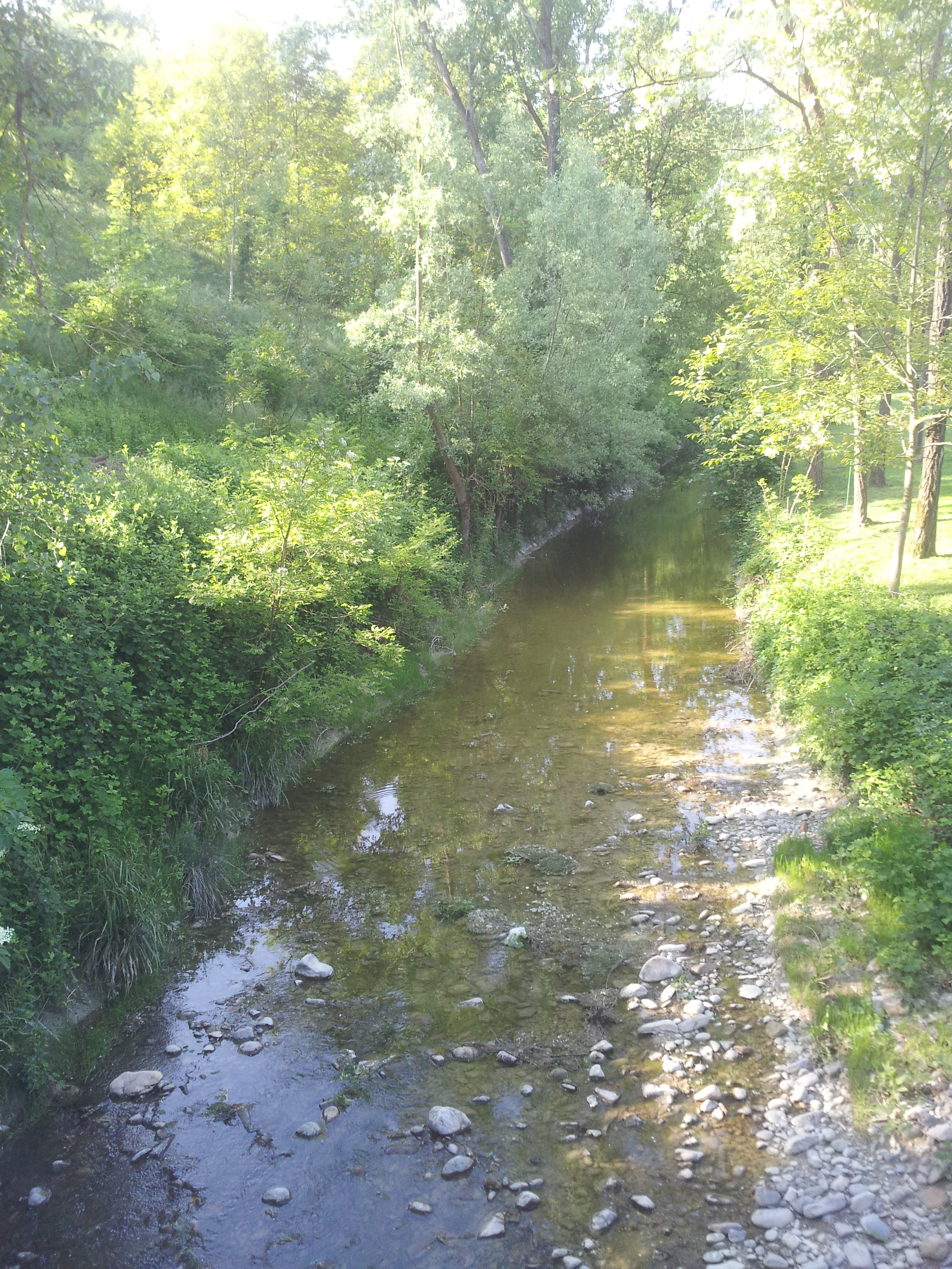 Scodogna Creek2